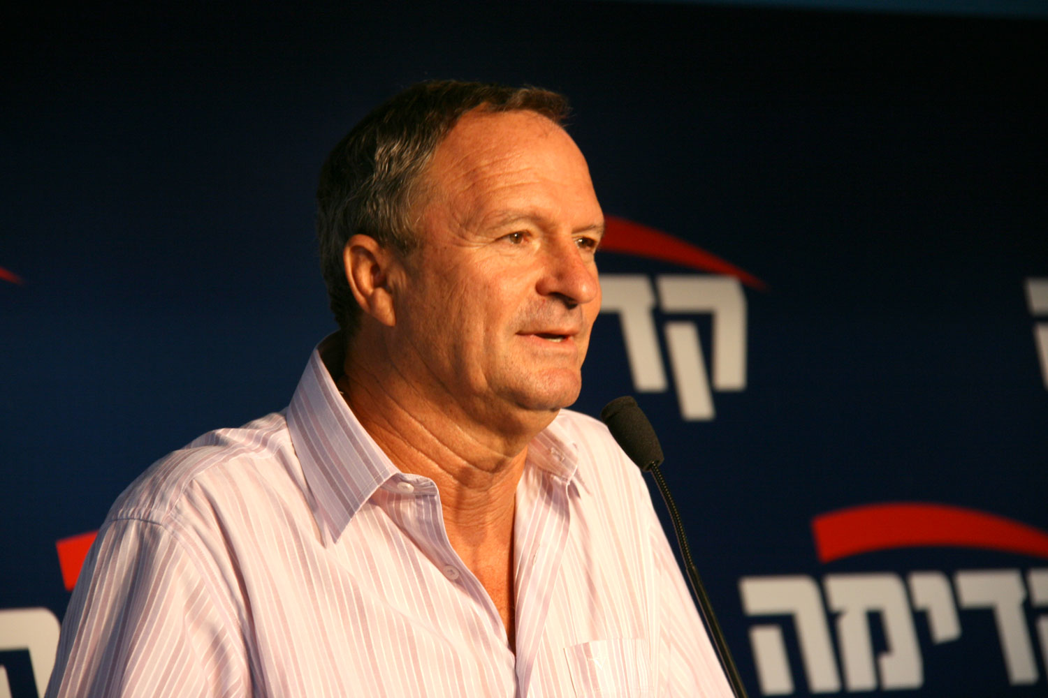 MK Zeev Bielski, Member of Kadima Party (Israel). Photo by: Itzik Edri, Kadima Party PR Team